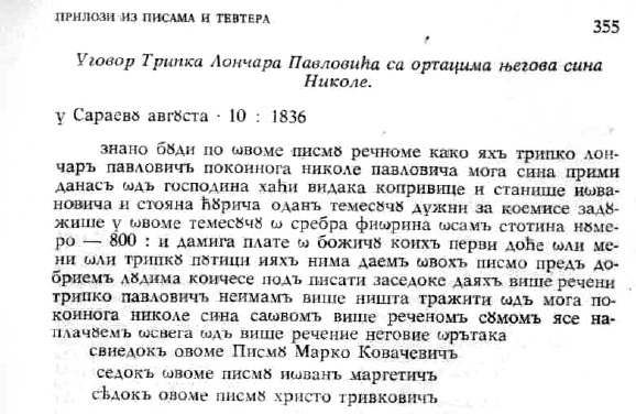 Transcript of a hand-written debt note written in Sarajevo 1836. Example of pre-reform Serbian vernacular writing. Note that the three witnesses in the end of the letter each use their own spelling standards.